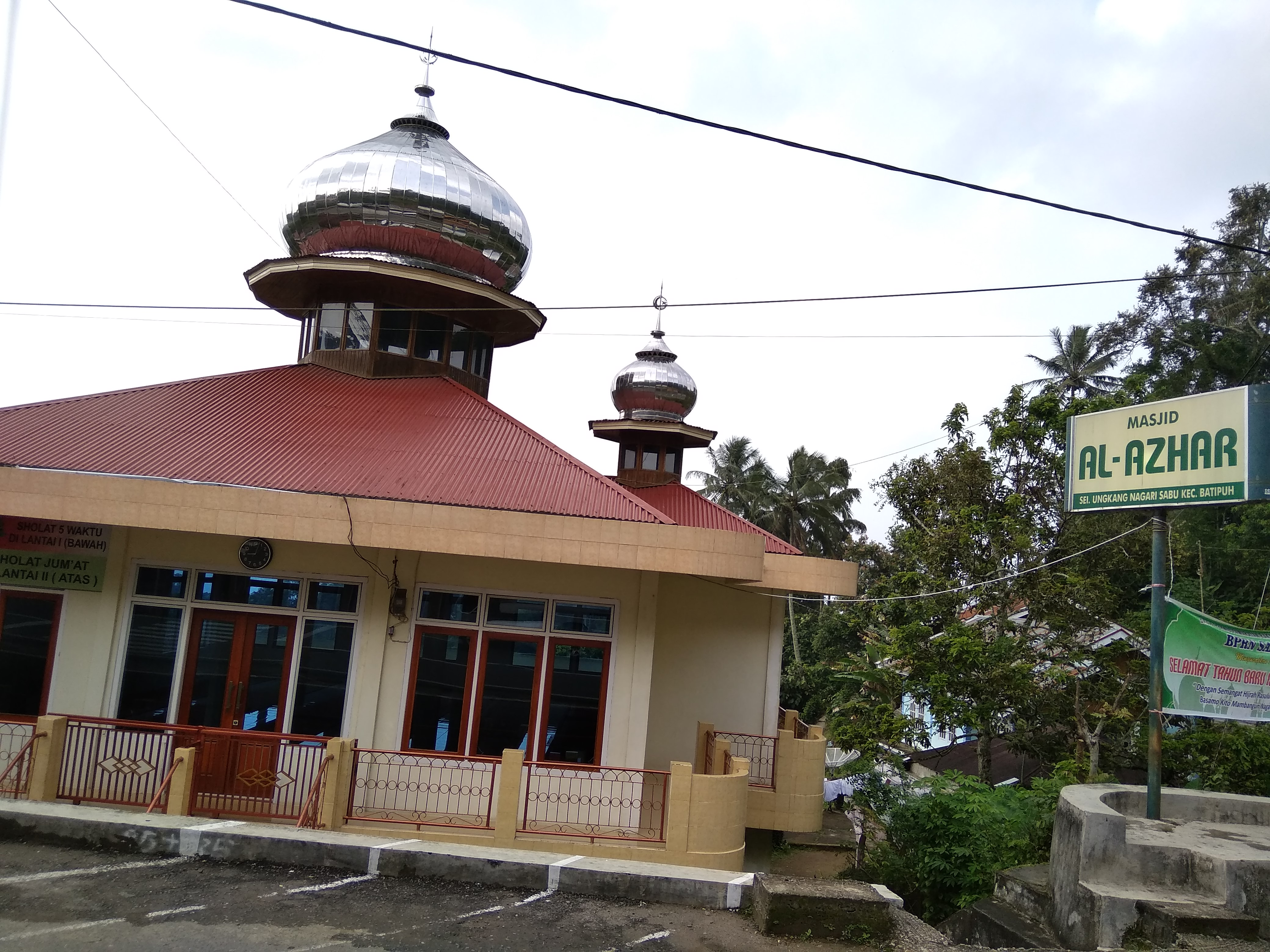 Al-Azhar mosque at Padang Panjang-Batusangkar street, Sungai Ungkang, Sabu village, Batipuh district, Tanah Datar regency, West Sumatra, Indonesia.